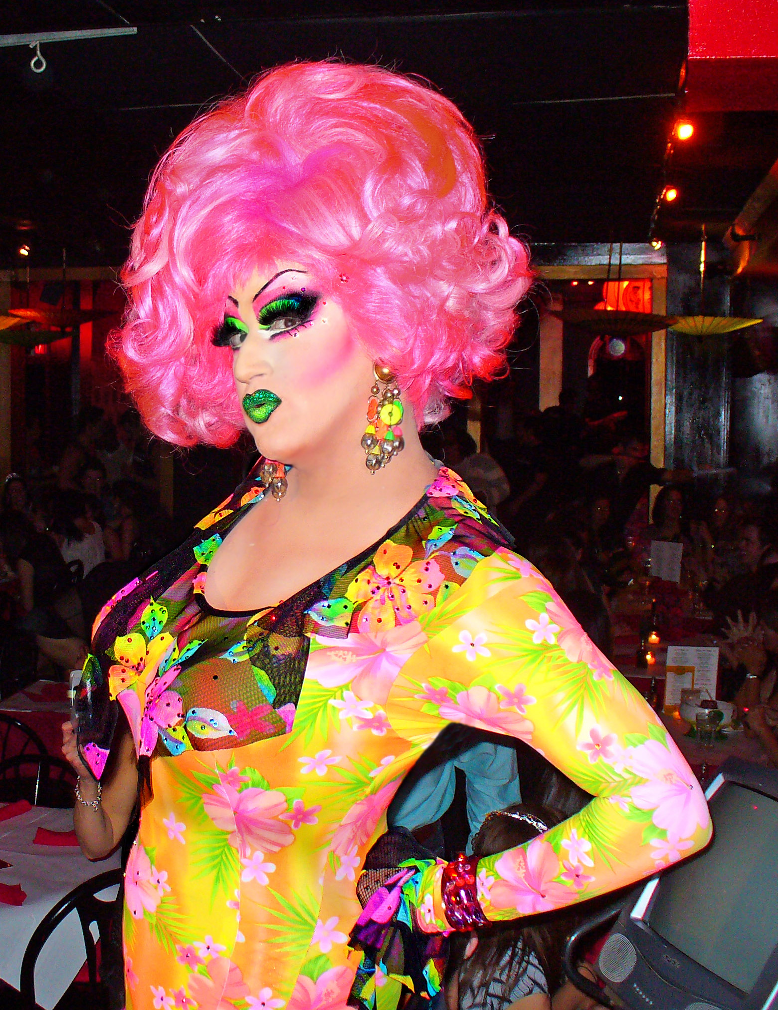 Miss Understood 3 by David Shankbone